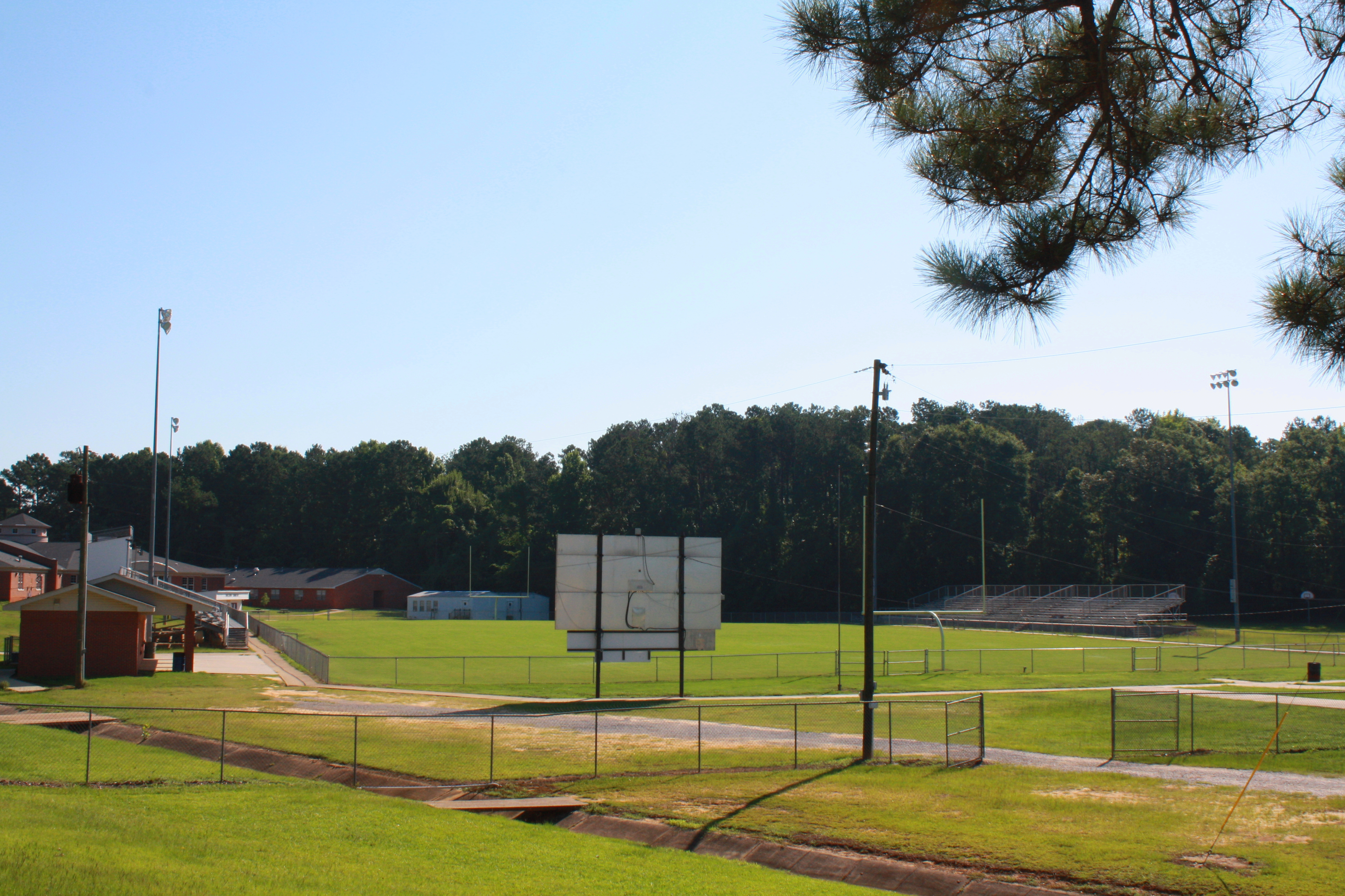 Sweet Water High School in Sweet Water, Alabama.